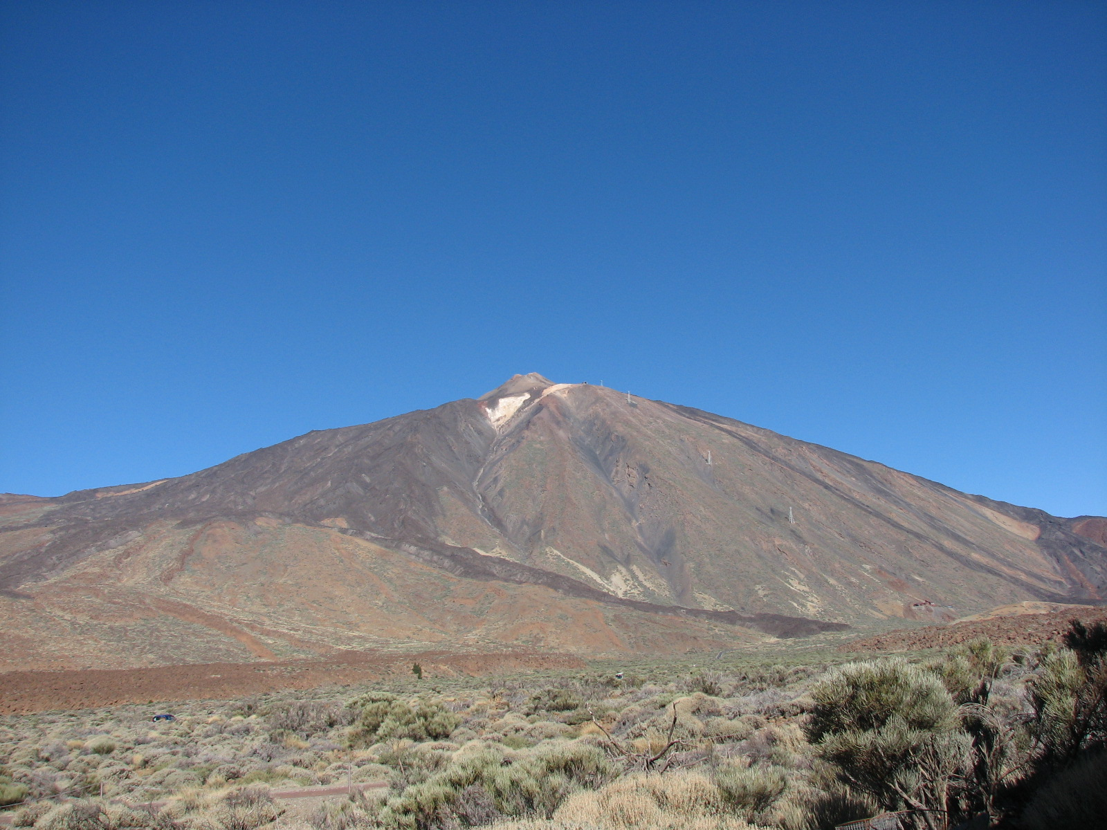 Teide and its cable car